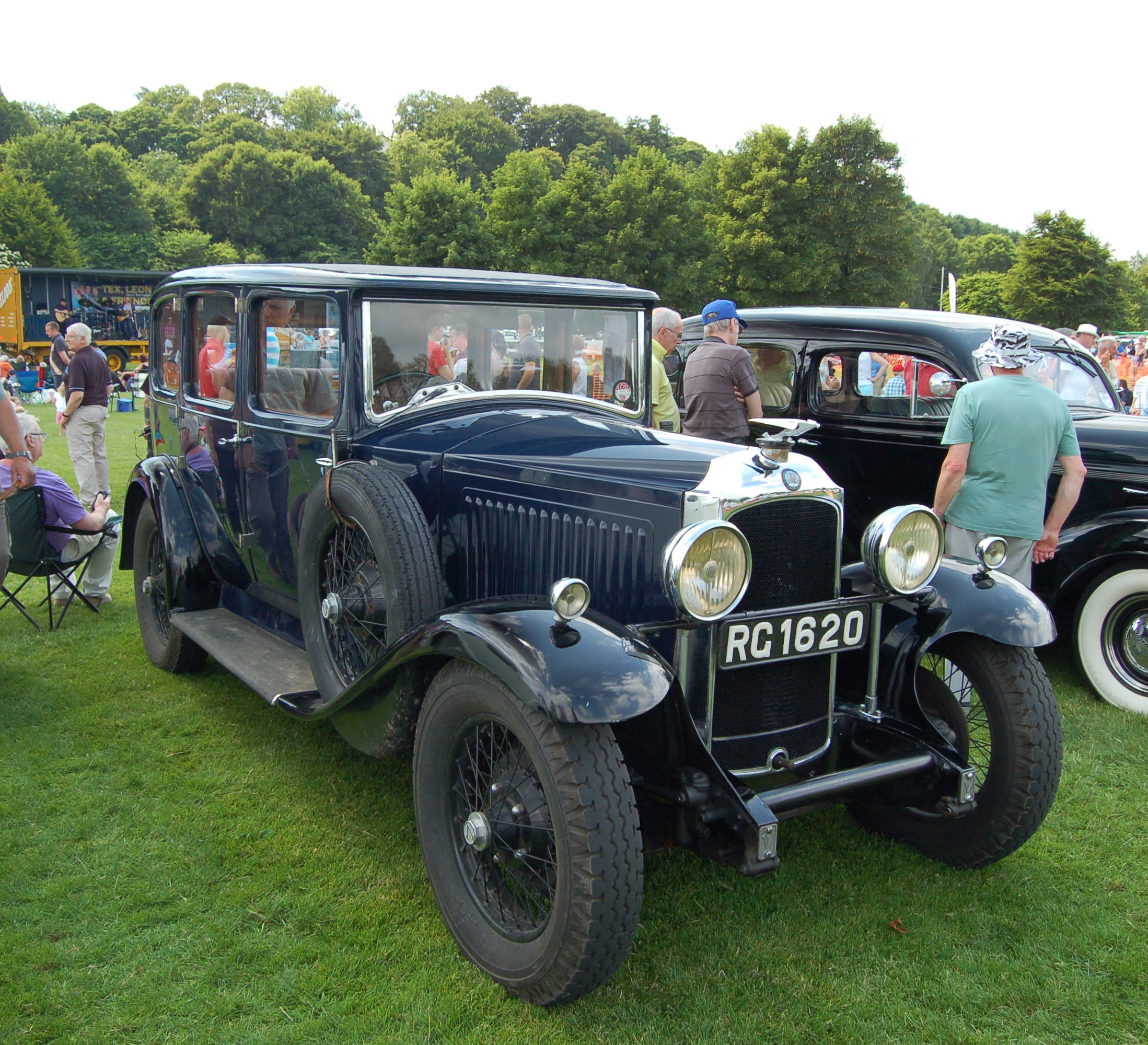 Vauxhall 20-60 T-type six-light saloon 1930 Crop Corbridge Classic Car Show 2013